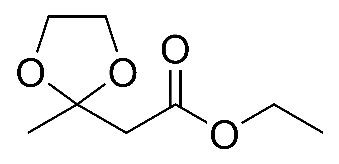 Chemical structure of fructone